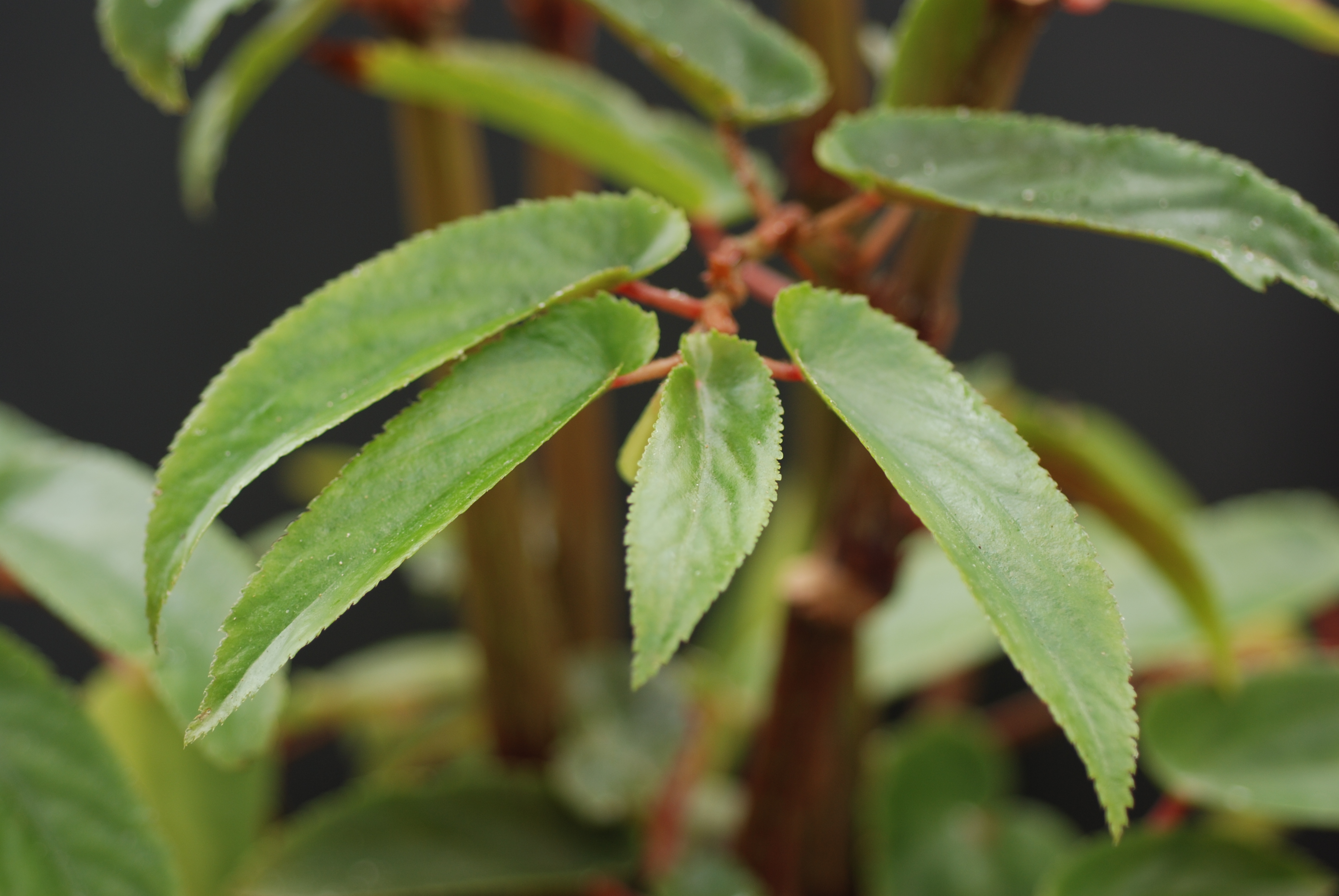 Begonia insularis Brade Family : Begoniaceae Accessions : 20071183-40 National Botanical Garden of Belgium Meise Botanic Garden Native nameNationale Plantentuin van België / Jardin Botanique National de BelgiqueLocationDomein van Bouchout / Domaine de BouchoutNieuwelaan 381860 MeiseBelgiumCoordinates50° 55′ 42.28″ N, 4° 19′ 36.78″ E Established1826: established, 1870: became publicly owned,Web page control : Q3052500 VIAF: 159423716 ISNI: 0000 0001 2195 7598 LCCN: n50078011 NLA: 35880480 SELIBR: 120680 WorldCat institution QS:P195,Q3052500 Created under the volunteer photographer program at the National Botanical Garden of Belgium.